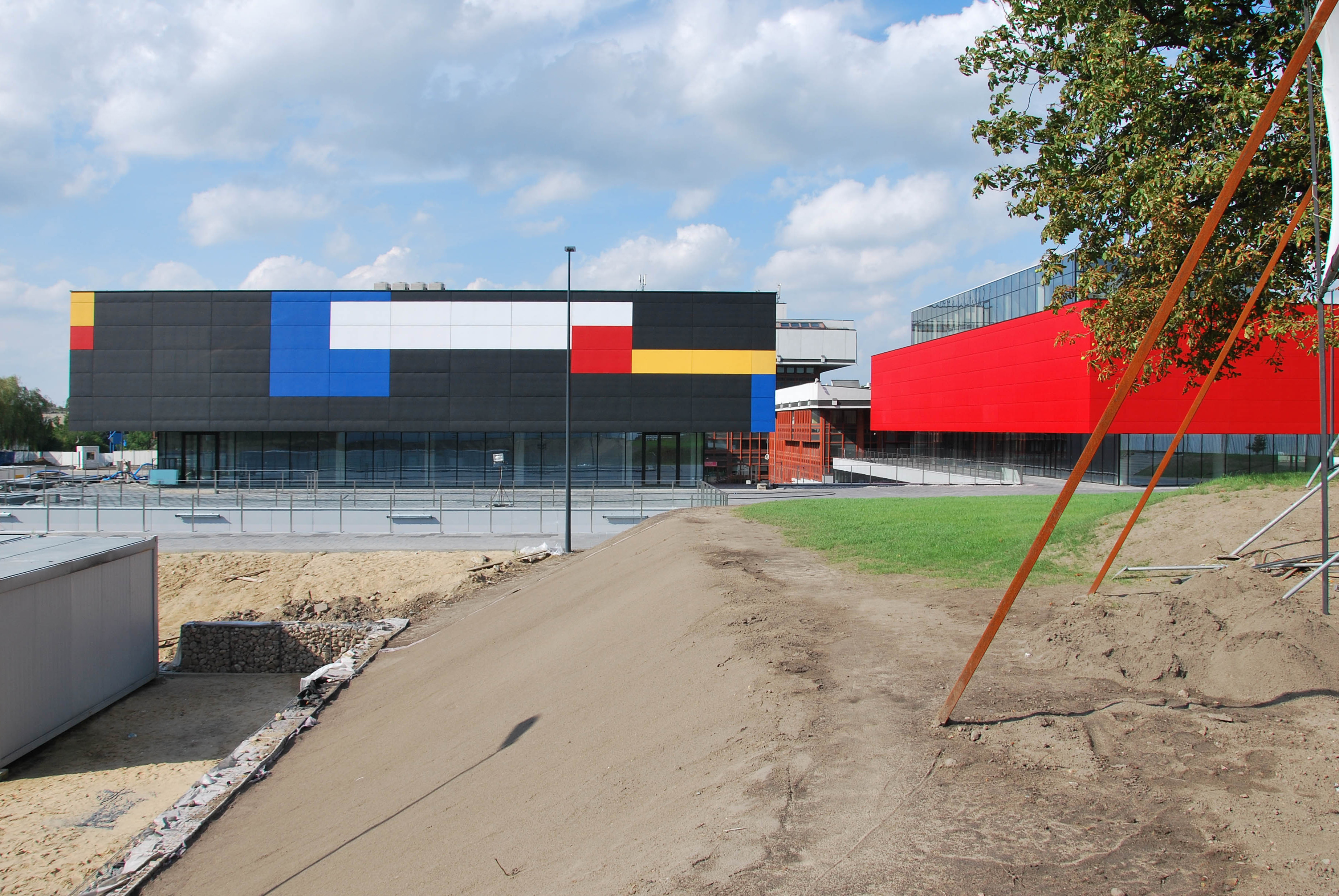 Building of Strzeminski Academy of Art in Łódź.